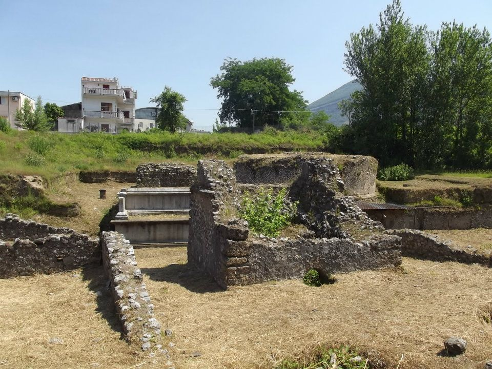 Necropolis of Pizzone, in Nocera Superiore, Italy.